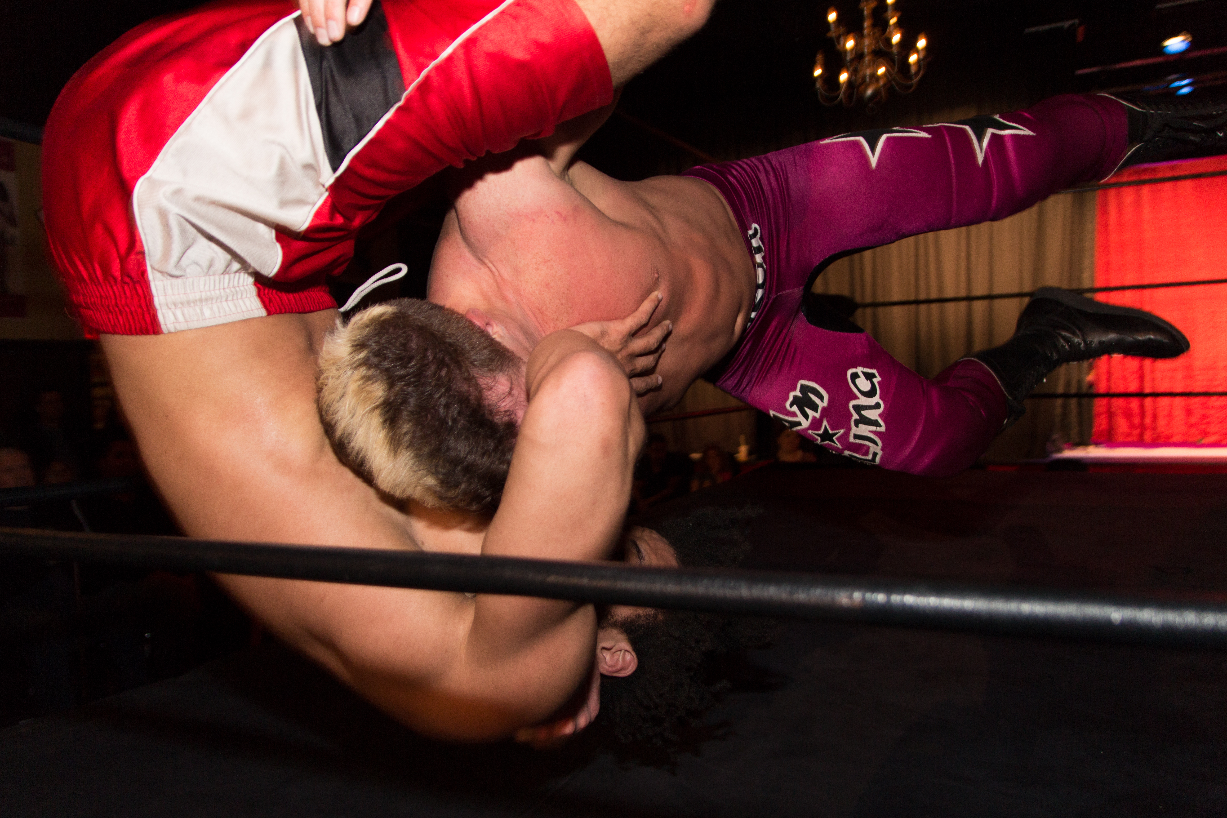 Tyson Dux executing a Death Valley Driver on Brent Banks into the ring corner